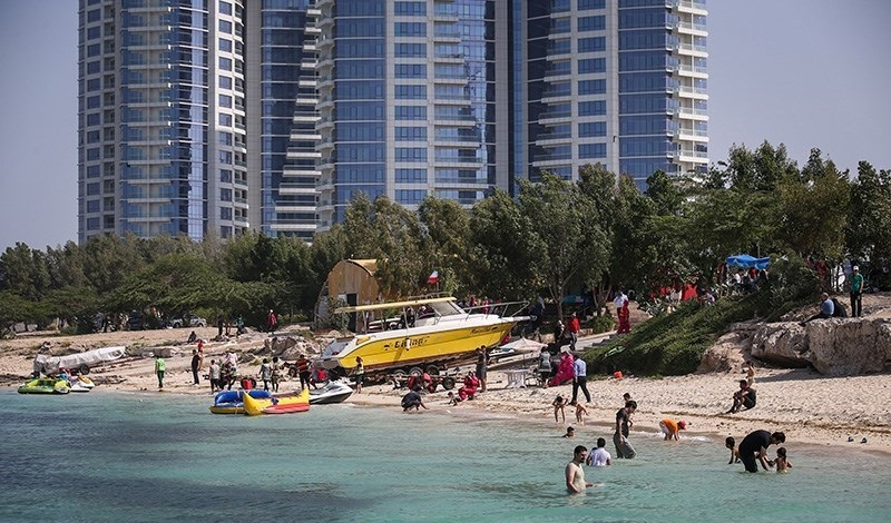 Kish Island's Marine leisure